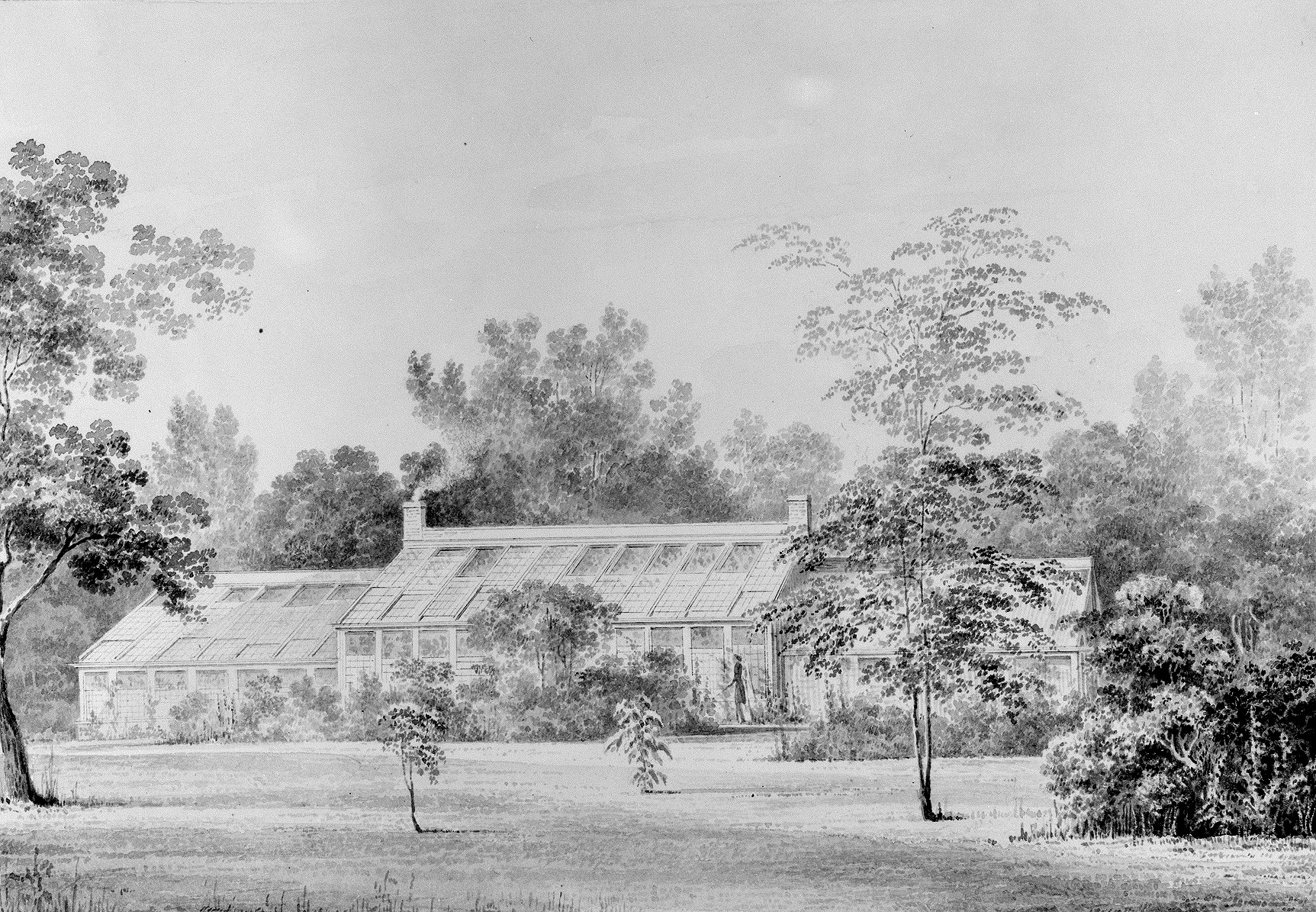 Greenhouse, David Hosack Estate, Hyde Park, New York (from Hoasack Album) Artist: Thomas Kelah Wharton (American (born England), Hull 1814–1862 New Orleans, Louisiana) Date: ca. 1832 Medium: Black ink (or watercolor) applied with pen or brush on off-white wove paper Dimensions: 5 13/16 x 7 7/16 in. (14.8 x 18.9 cm) Classification: Drawings Credit Line: Purchase, Mrs. Louis Marx Gift, 1994